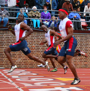 100m dash: Photo-finish (L to R) John Capel (4 - USA) - winner Darvis Patton (2- USA), Mike Rodgers (1 - USA) The Penn Relays at Franklin Field. 24-26 April 2008. The Penn Relays, Saturday 26 April 08. Shot for The Daily Pennsylvanian.